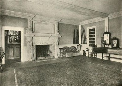 Wentworth Coolidge House council chambers